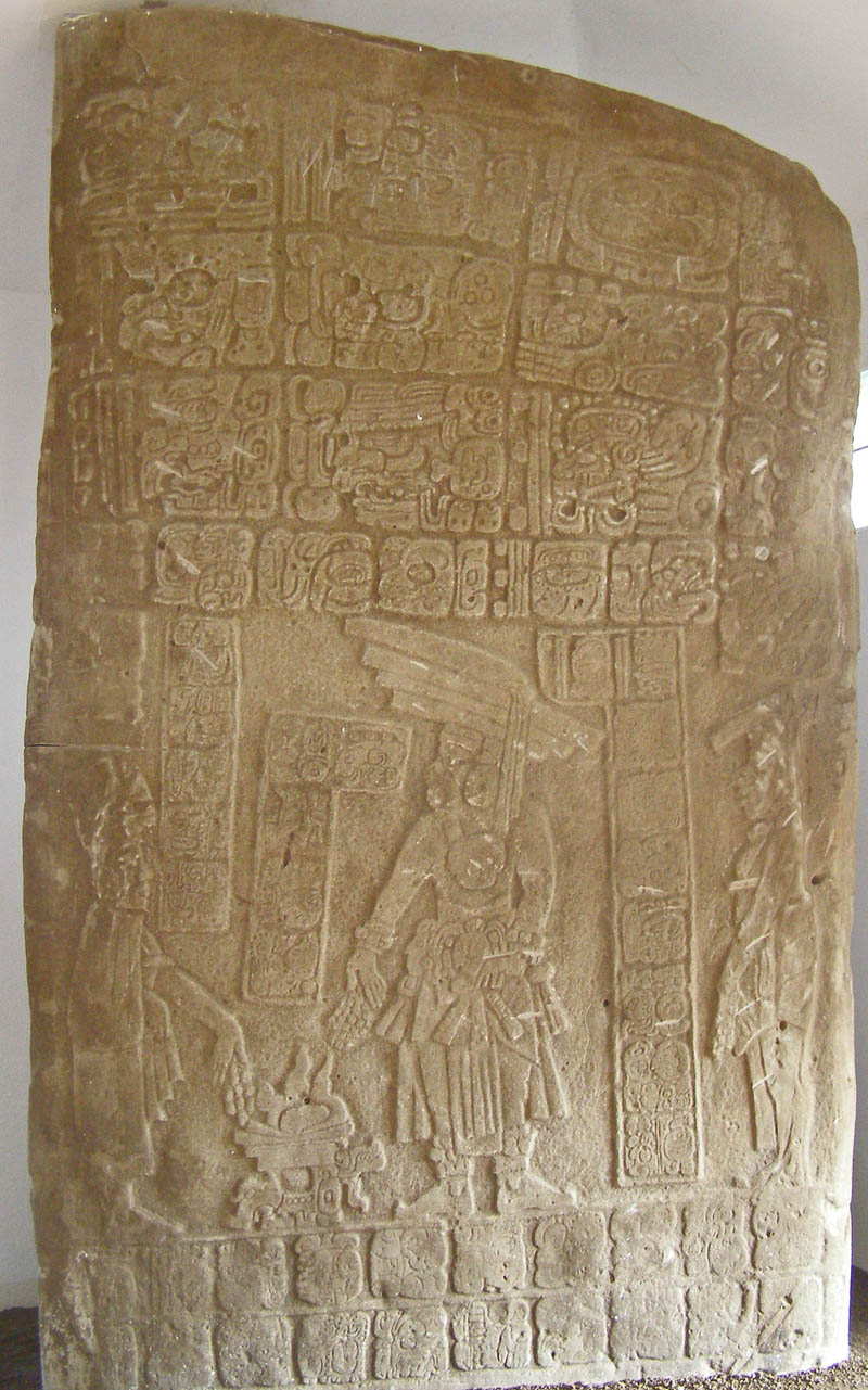 A stela from Nim Li Punit Maya site in what is now Belize. Low res version of "naming" stela with Maya ruler in large head dress or "big hat" ; taken on site at nim li punit (museum); photographer: c michael hogan; date: jan 2007